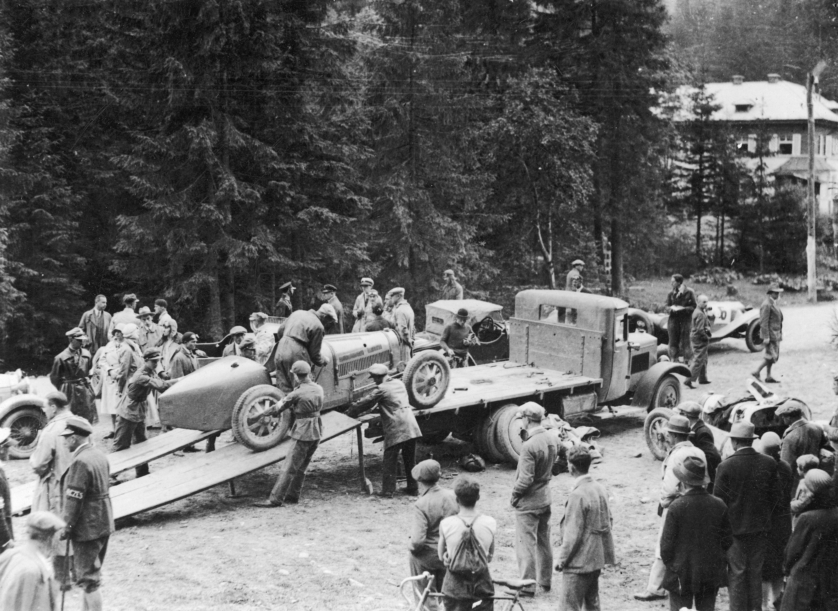 2nd International Tatra Rally, Poland, August 1929. Disembarking of unidentified Bugatti.